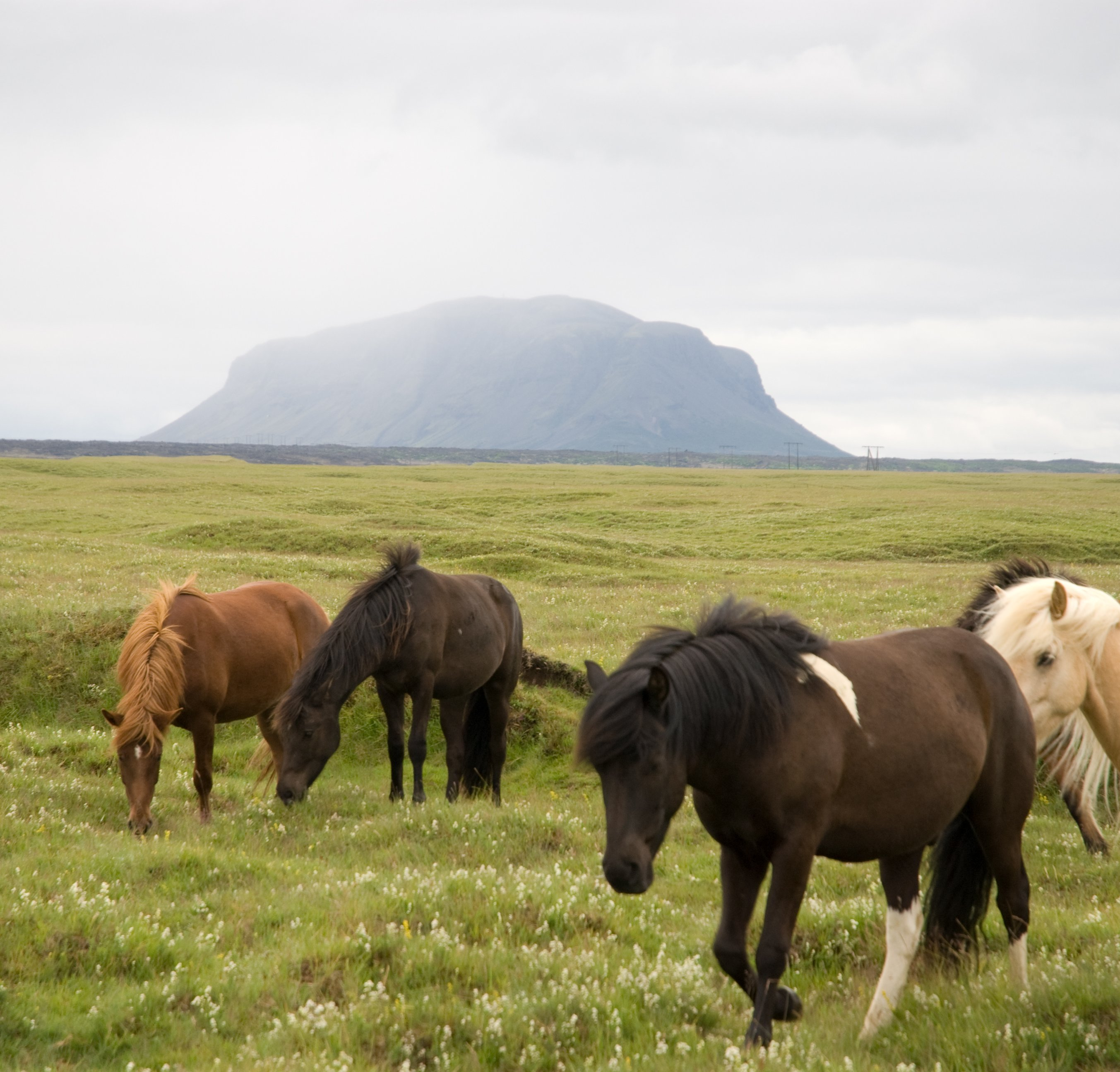 Iceland